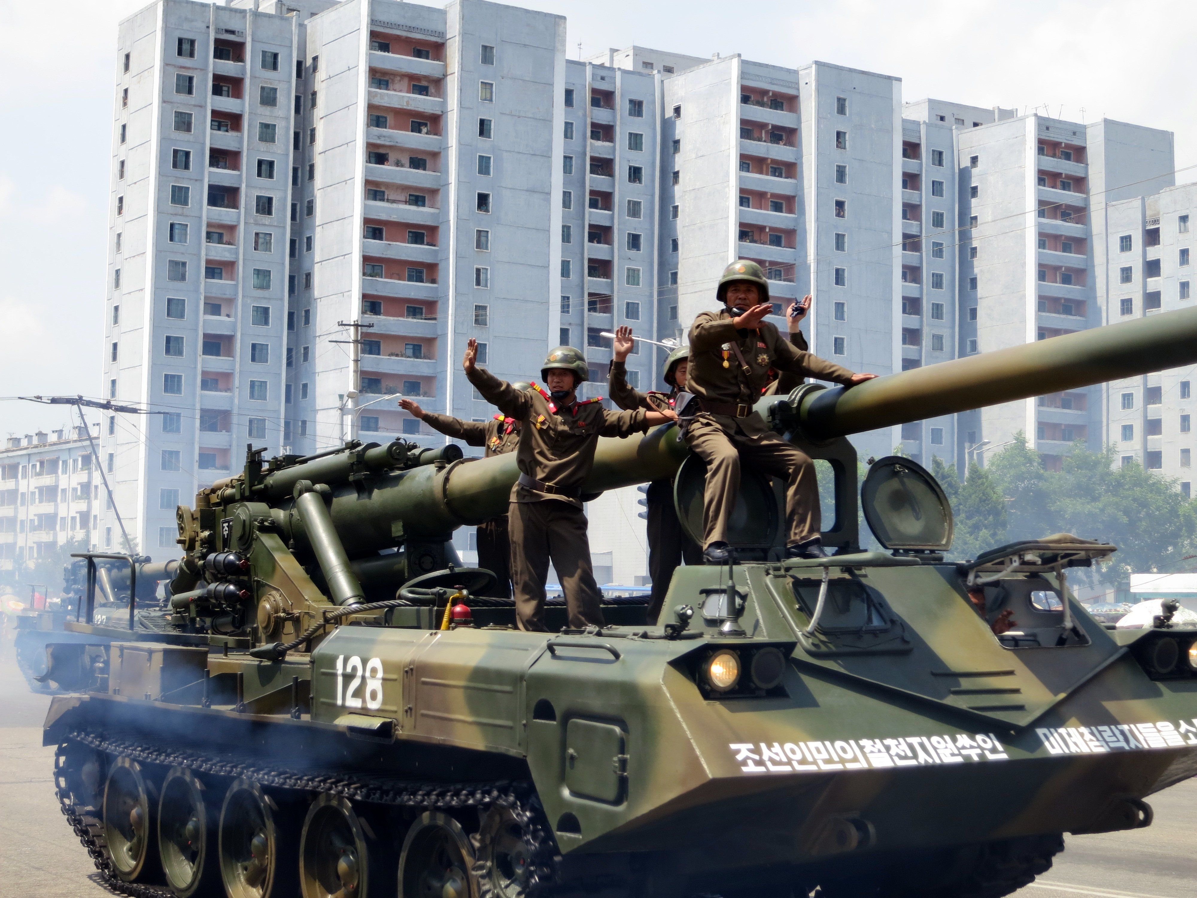 170mm M1989 Koksan - North Korea Victory Day-2013